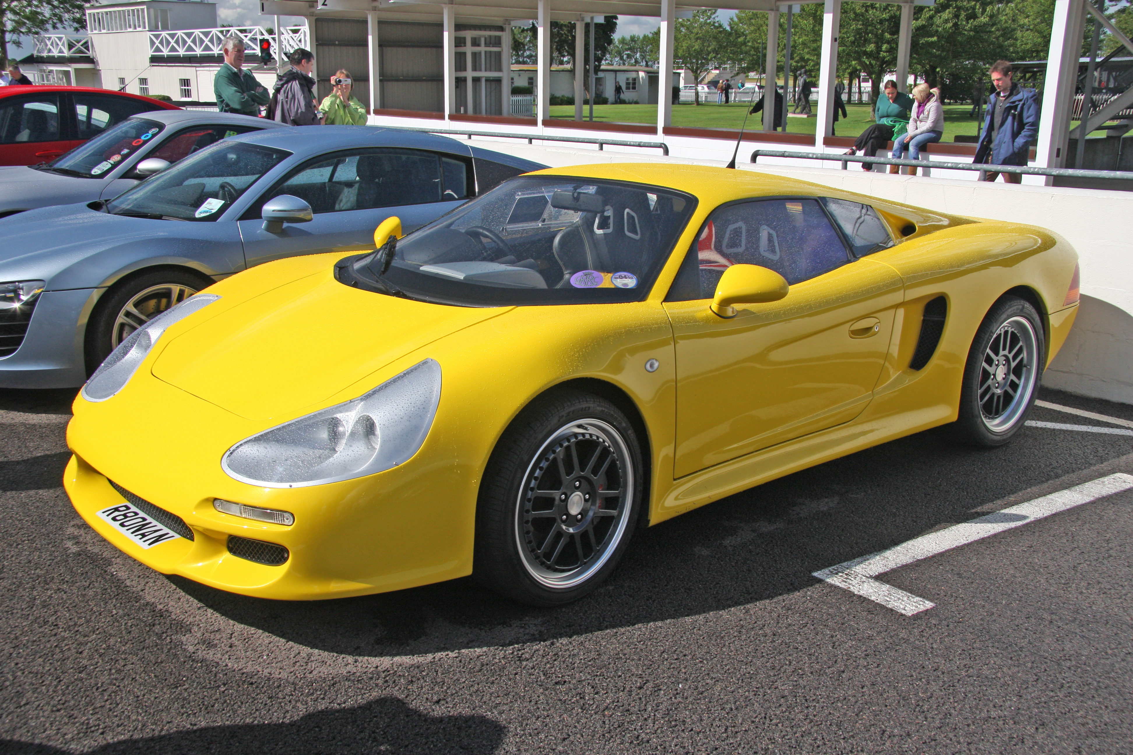 There were only two R45 produced and retained by the company who took over Spectre Supersport Ltd. At present this yellow one is the only road going model. it was decided that they would not be economic to produce but were retained to benchmark other prototypes.The owner of this car bought it about 6 months ago